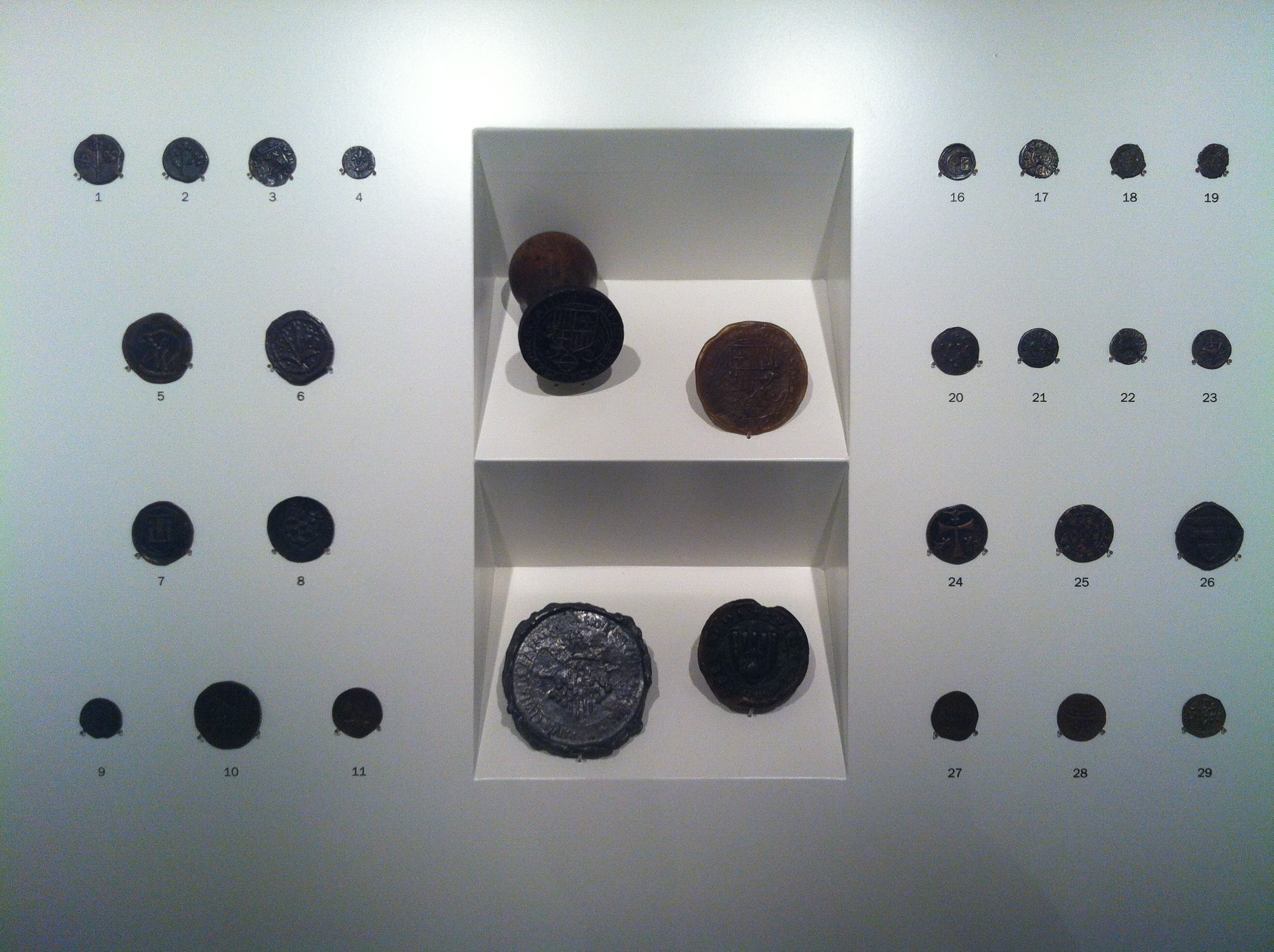 Numismatic collection conserved at MNAC in Barcelona.The collection of the Numismatic Cabinet of Catalonia, open to consultation by researchers, is formed by over 135,000 pieces. The principal numismatic series are represented here, with coins dating from the 6th century BC to the present day, as well as medals, valuable paper, tokens, monetary weights, scales, dies, decorations and insignia. Of all this wealth of material, the most important and emblematic series are without doubt the Catalan ones. They include extremely rare pieces, such as the first silver coins ever struck in the Iberian Peninsula by the Greeks of Emporion, the issues of the Catalan counties, those of the 17th-century Reapers’ War, those of the Napoleonic invasion and the bank notes issued by local councils in Catalonia during the Civil War of 1936-1939